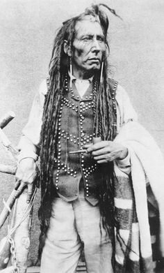 Cree Chief Pitikwahanapiwiyin with locked hair.